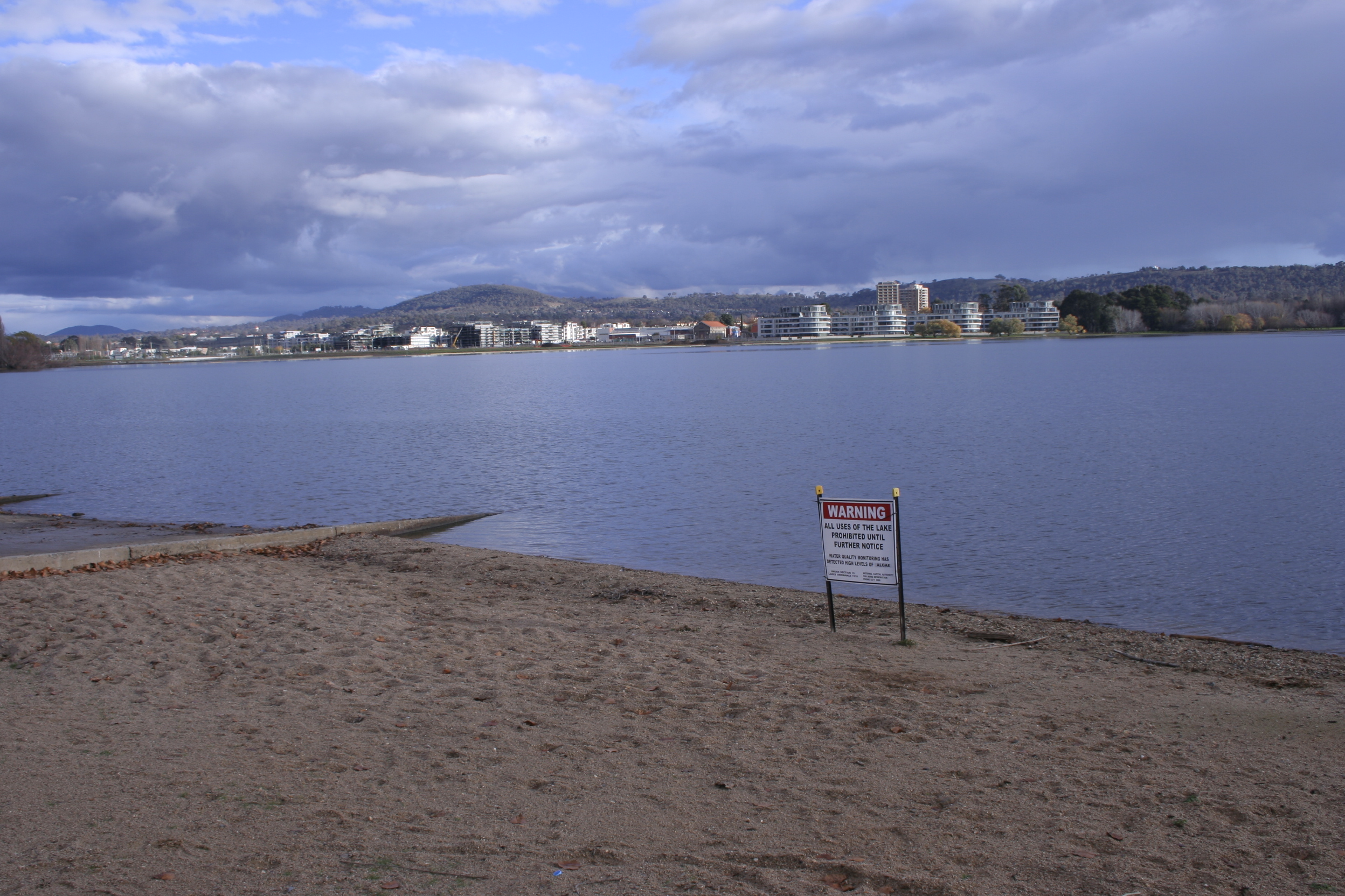 Lake Burley Griffin, East Basin. With sign "Warning - All uses of the lake prohibited until further notice - Water quality monitoring has detected high levels of Algae"